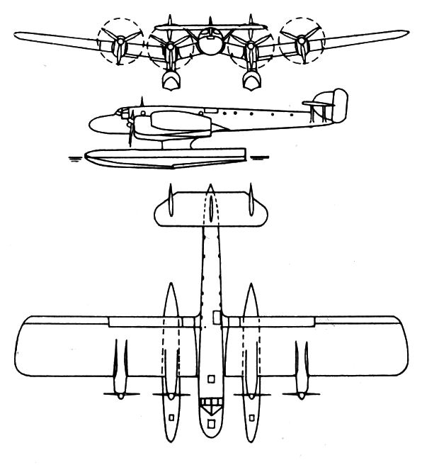 Blohm und Voss Ha.139 3-view drawing from L'Aerophile September 1938